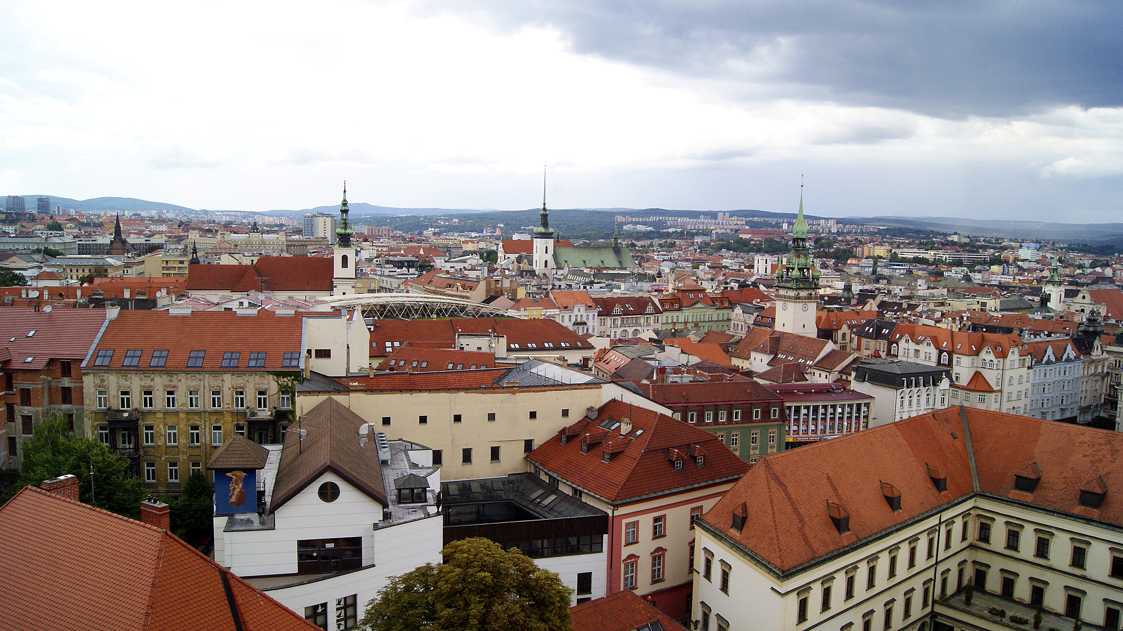 View from St. Peter and Paul cathedral